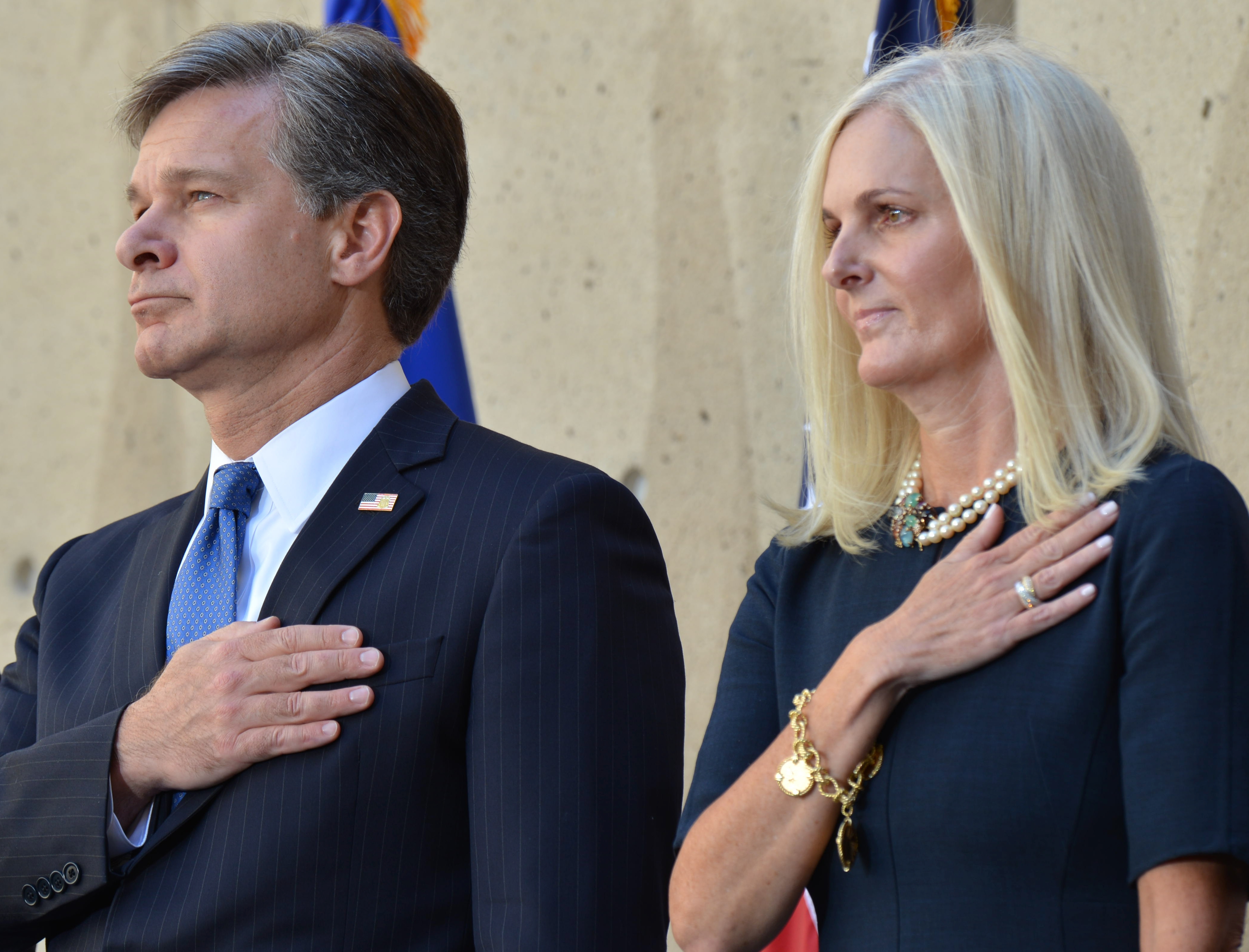 Director Christopher Wray and his wife, Helen Wray, stand during the Pledge of Allegiance as part of his formal installation ceremony at FBI Headquarters on September 28, 2017. Wray, a former U.S. attorney and assistant attorney general in the Justice Department’s Criminal Division, was formally sworn in August 2, 2017 in a private ceremony. Full story